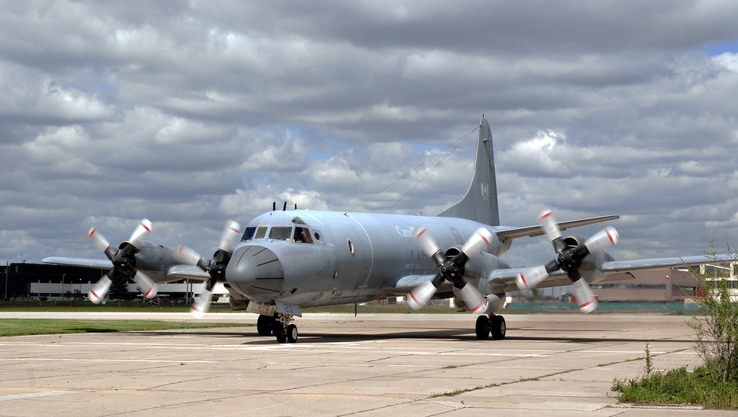 A photo of CP-140A Arcturus, as it arrives at 2008 Wings and Wheels Festival, which was held at Downsview Airport, Toronto, Ontario, Canada.